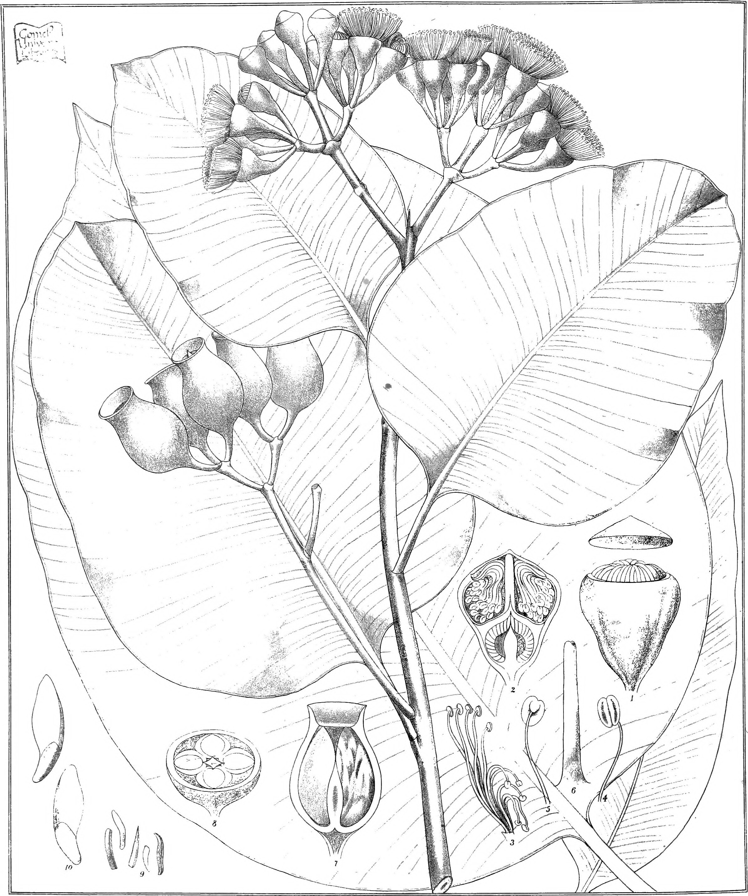 Title: Eucalyptographia. A descriptive atlas of the eucalypts of Australia and the adjoining islands; Year: 1879 (1870s) Authors: Mueller, Ferdinand von, 1825-1896 Subjects: Eucalyptus; Botany Publisher: Melbourne, J. Ferres, Govt. Print; (etc. ,etc. ) Text Appearing Before Image: ' Text Appearing After Image: Todl -ifl C Troeael * C LitK. F. V. M direxiL. Steam Lilho Gov Printing Office Melb lwM;);)te IF©(Ba^(gl(B»iio/"ftI/